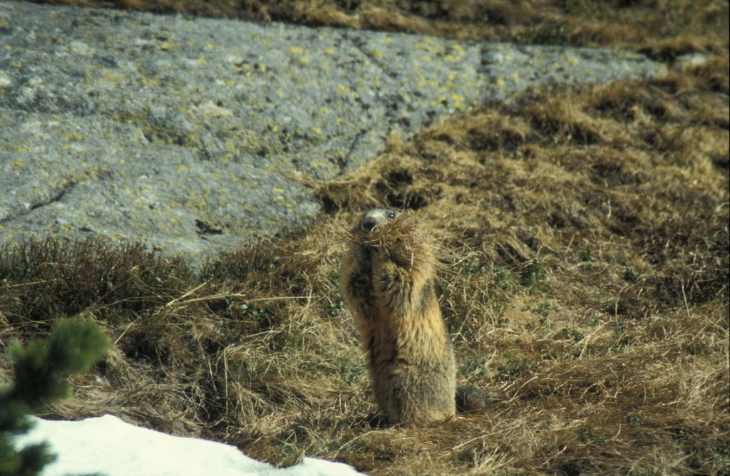 M. marmota latirostris collets a hay for a litter to the burrow, Tatra Mauntains